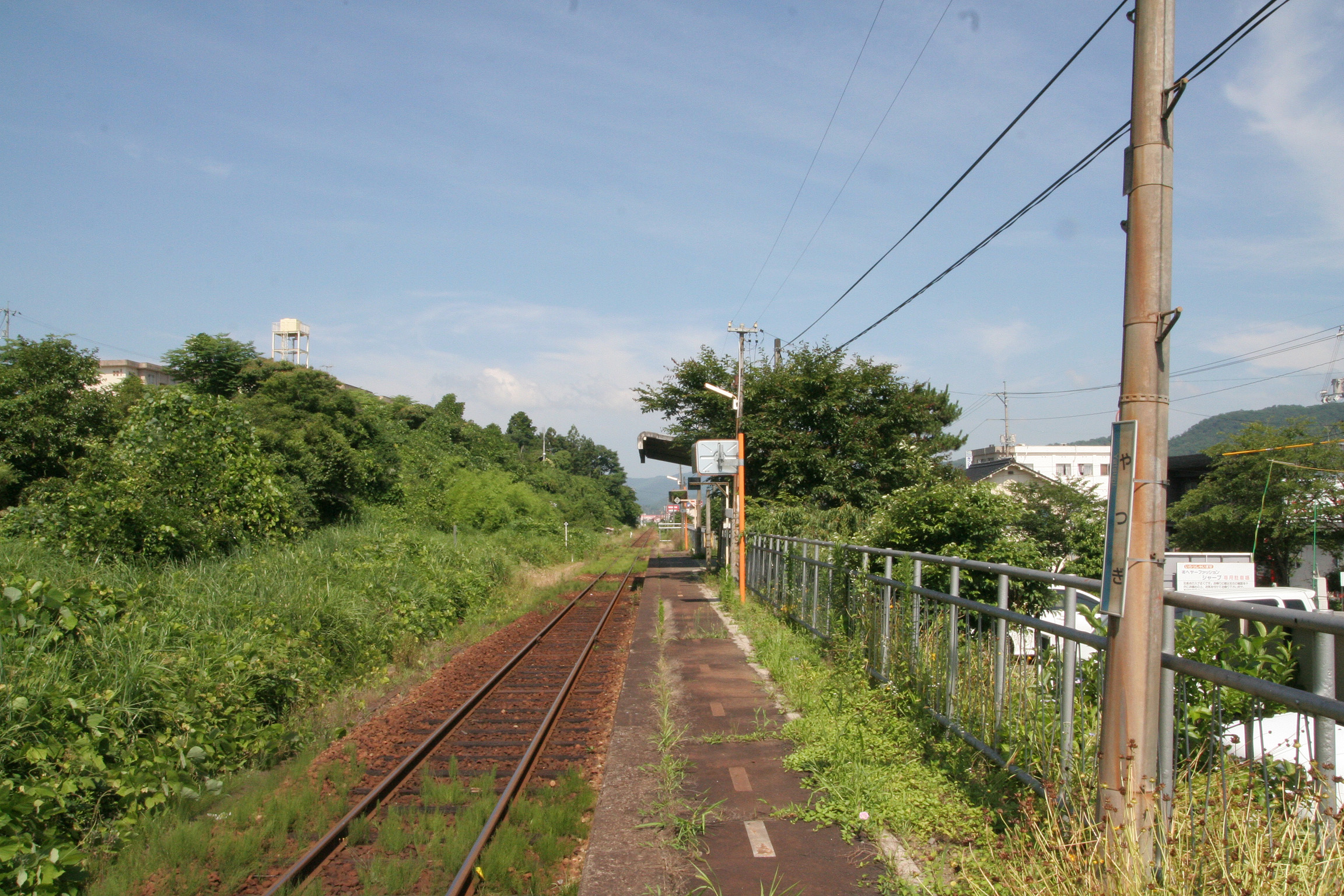 West Japan Railway Geibi Line Yatsugi Station enclosure